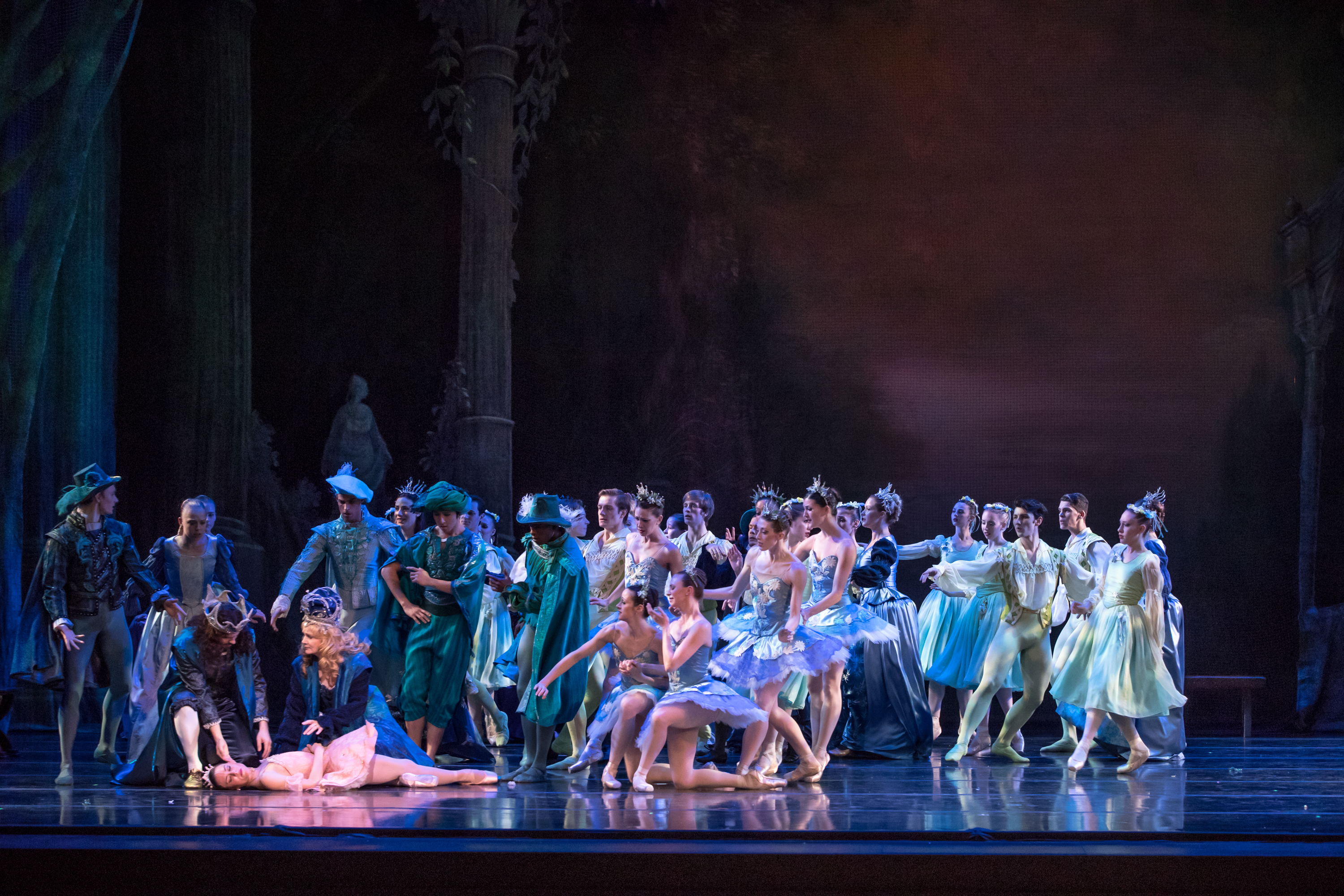 Dancer Tempe Ostergren with Company Dancers. Photography: Brett Pruitt & East Market Studios.